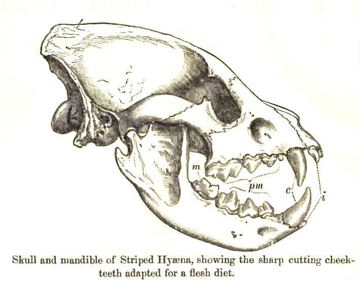 Skull of Striped Hyena (Hyaena brunnea Syn. Parahyaena brunnea)